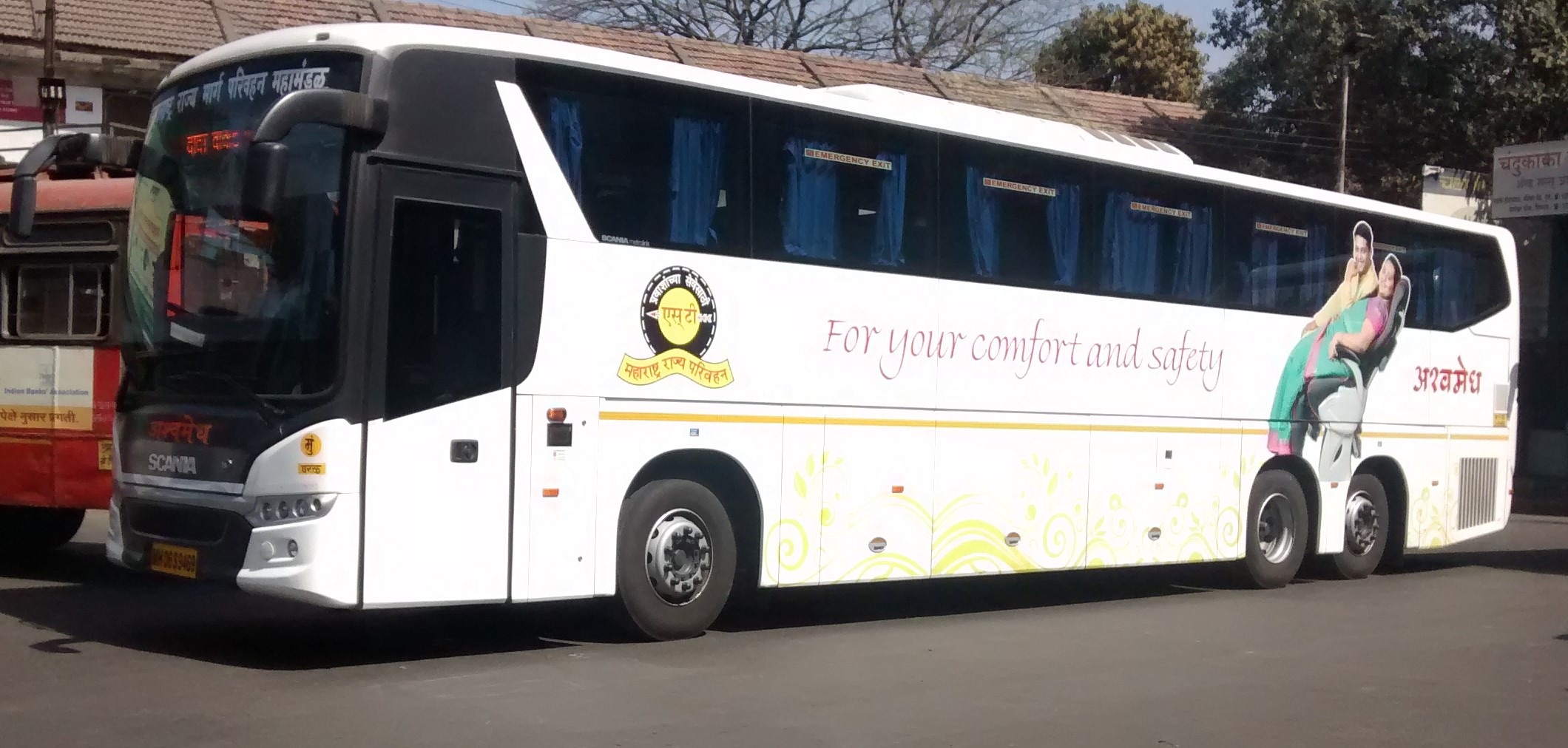 MSRTC Scania Ashwamedh